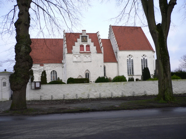 Skanör church Source: taken by user dec 26th 2004